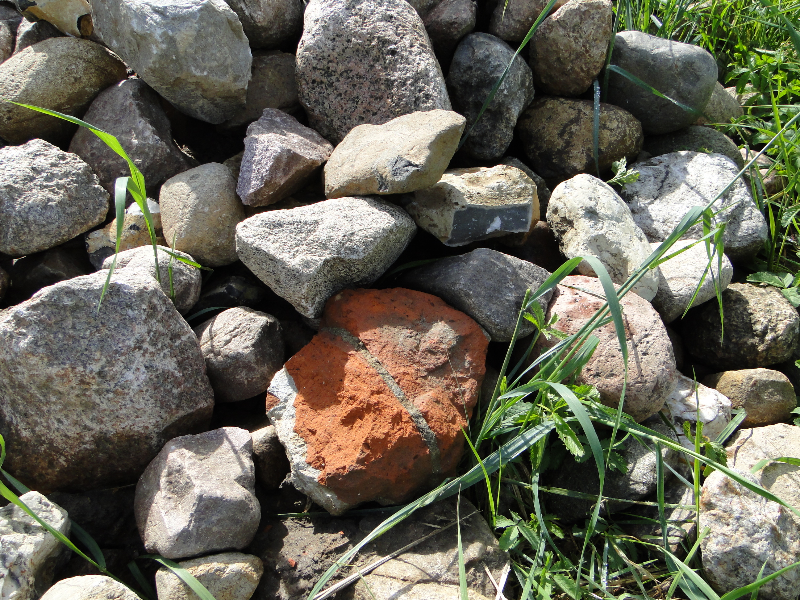 Abandoned village Preensberg, district Nordwestmecklenburg Mecklenburg-Vorpommern, Germany